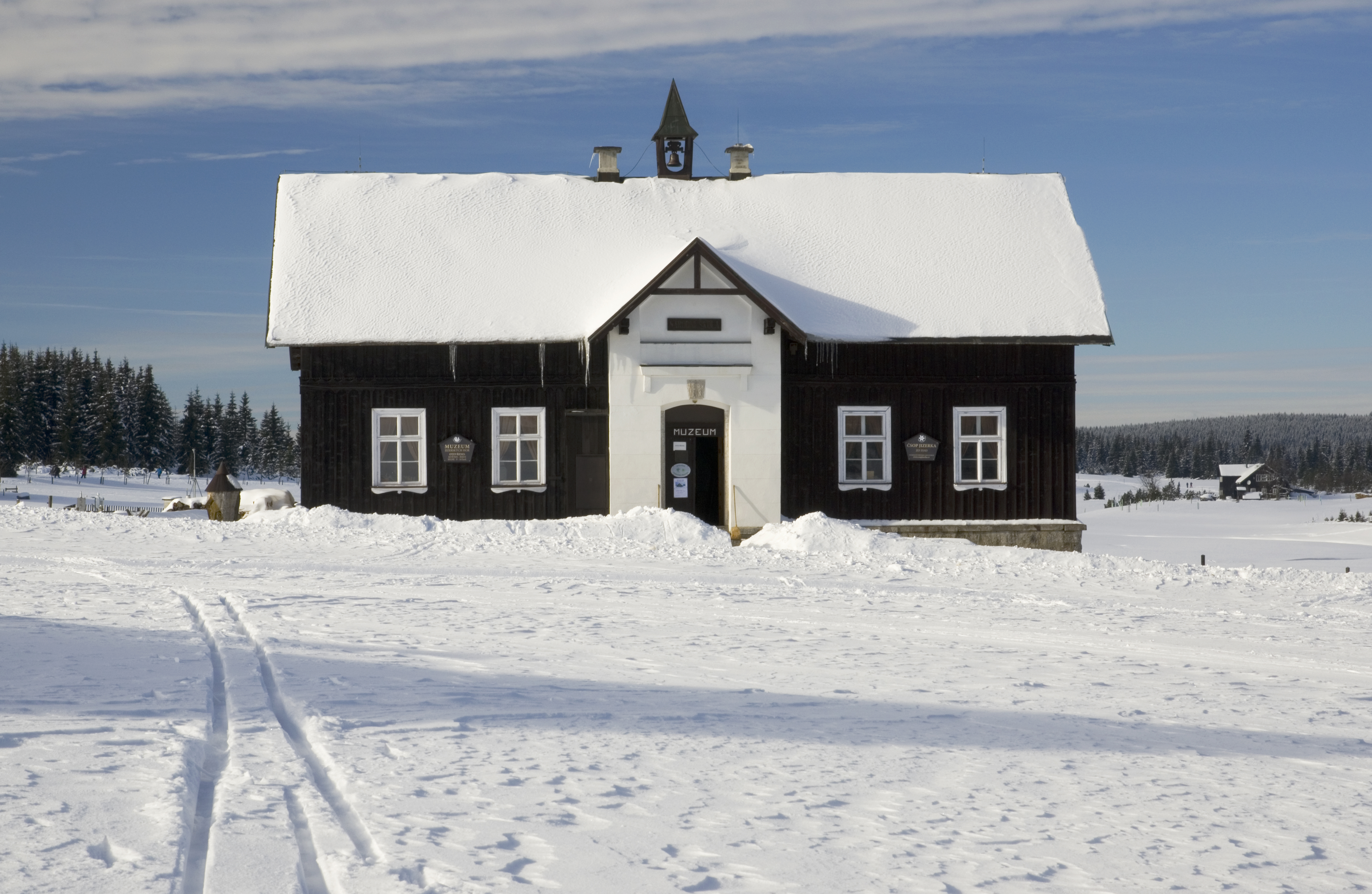 Museum of Jizera Mountains, Jizerka, Czech Republic